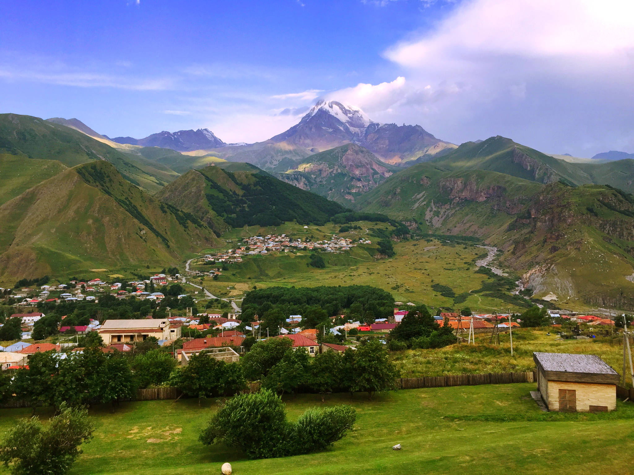 Mount. Mkinvarcveri (Kazbek) 5033 m., Stefancminda district